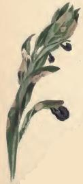 Stainton’s Natural History of the Tineina (1855–1873): Coleophora vibicella sprig of Genista tinctoria, with mined leaves and three cases of young larvae attached